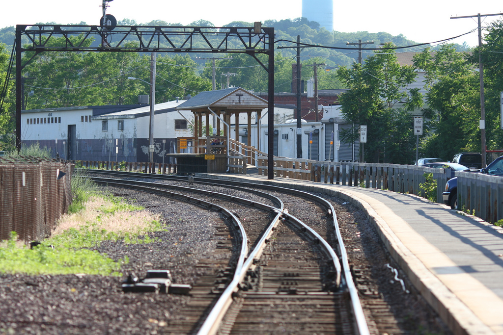 Waltham, MA MBTA commuter rail station, outbound side. Taken from Moody St. facing west.